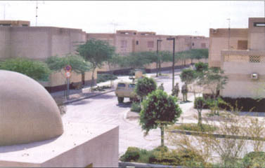 The Saudi city of Khafji, before the Battle of Khafji